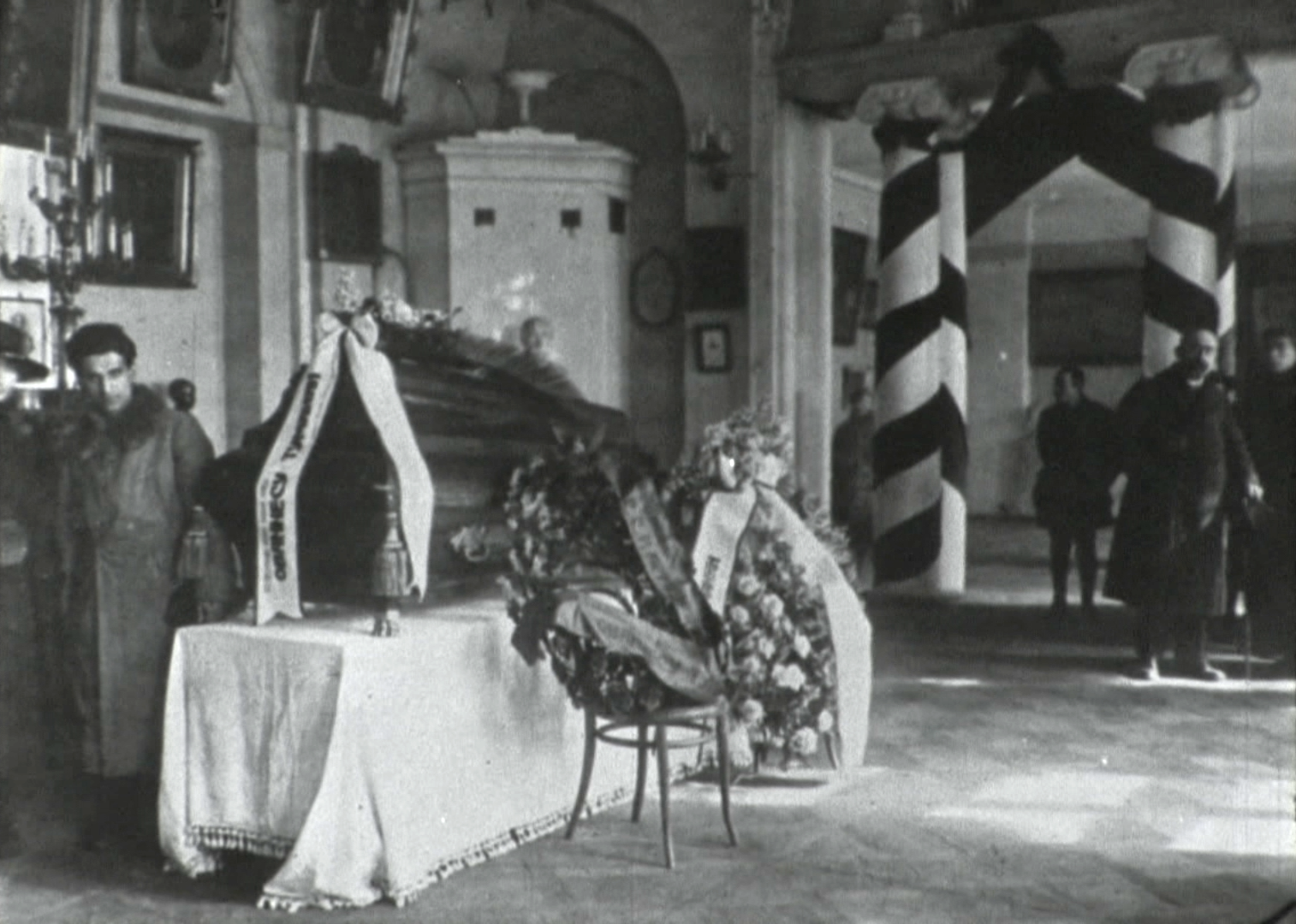 Hovhannes Tumanyan funeral